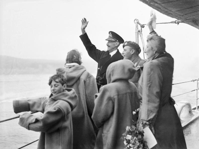 The royal family of Norway waving to the welcoming crowds from HMS NORFOLK at Oslo. With them is Crown Prince Olaf (centre) who came on board in a launch. The royal family escaped from Norway just after the German invasion.